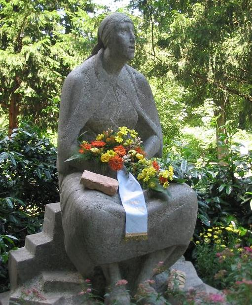 Monument „Trümmerfrau“ (german for „rubble women“) in the park Volkspark Hasenheide in Berlin-Neukölln. Created in 1955 by Katharina Szelinski-Singer